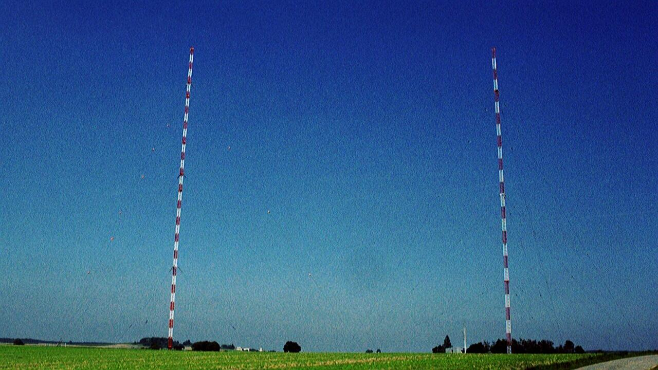 Masts of Bodenseesender I self made the picture and I permit its usage in Wikipedia!